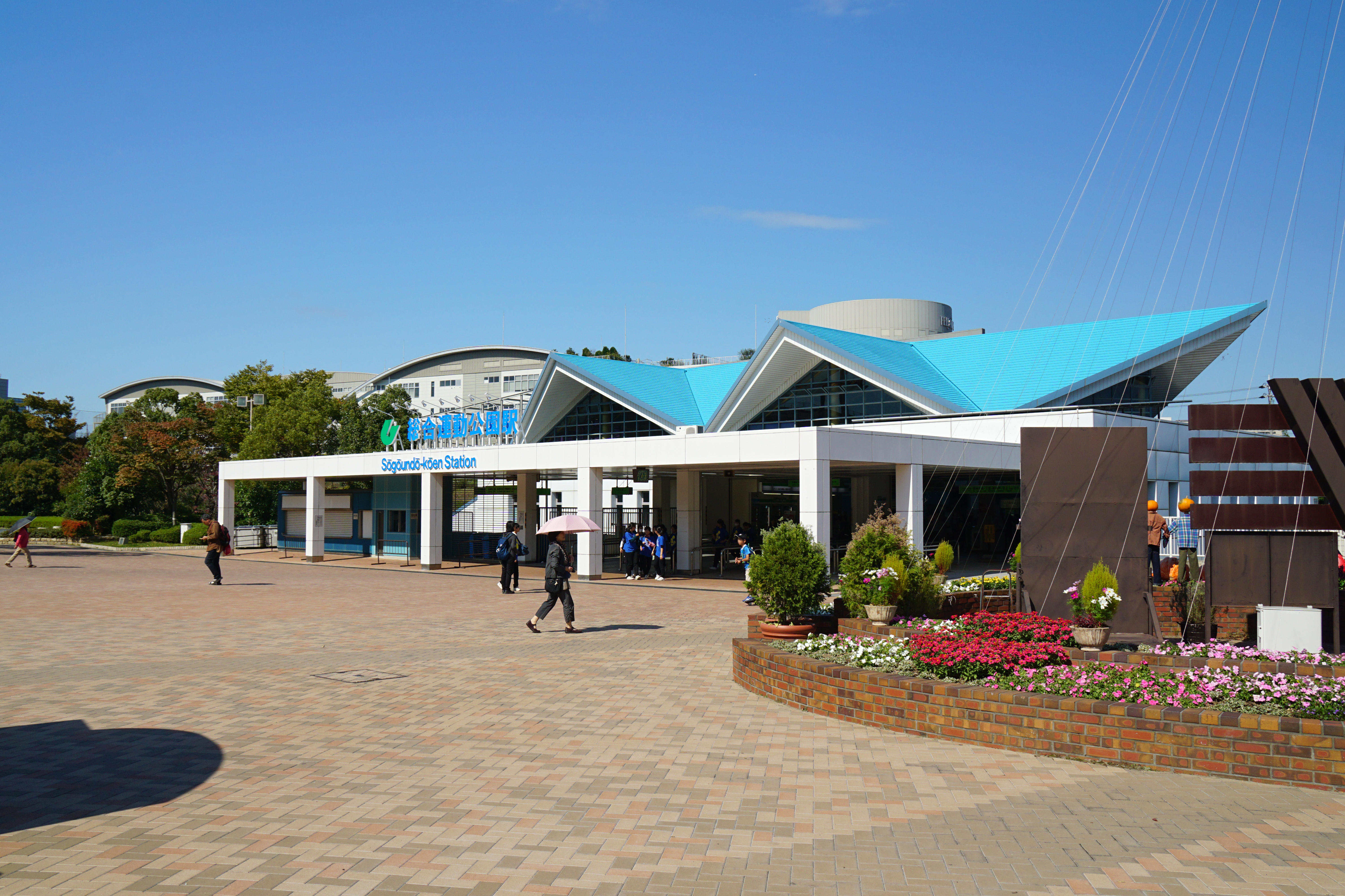 Sōgō Undō Kōen Station in Kobe, Hyogo prefecture, Japan